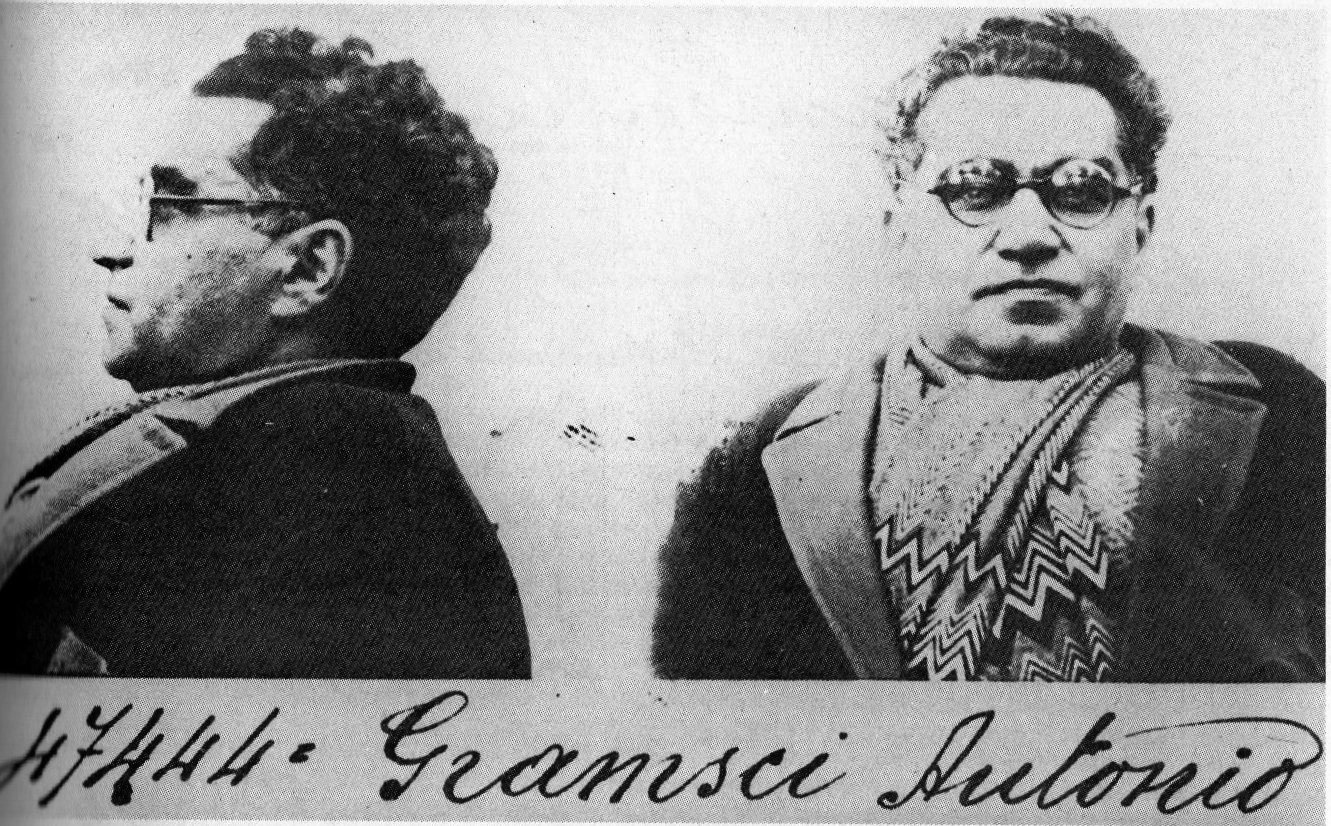 Gramsci nel 1933